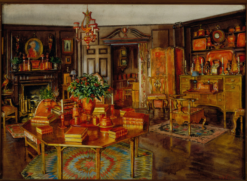 Interior view of the Octagon Room at Beauport, Sleeper-McCann House, as it appeared during Henry Davis Sleeper's lifetime. Watercolor on paper. Painted wood frame.